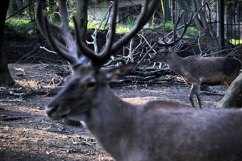 Marals at Semes Kandeh Animal Shelter in Sari County.